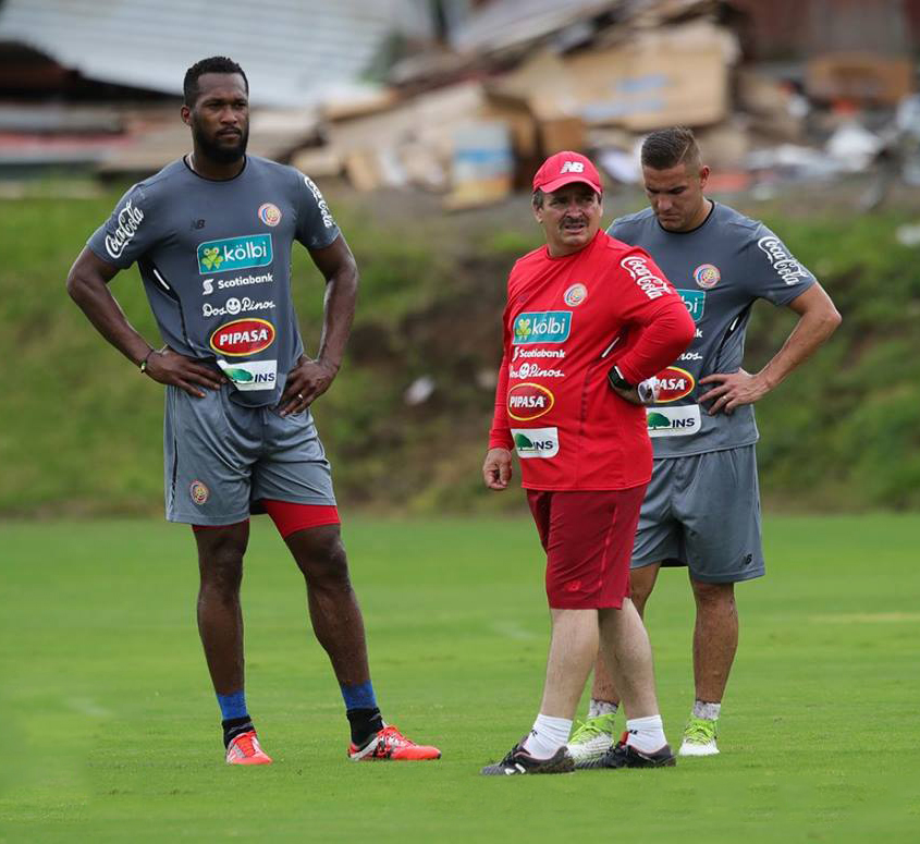 Óscar Ramírez (coach), Kendall Waston and David Guzmán during a training with Costa Rica national football team on October 2nd, 2017.